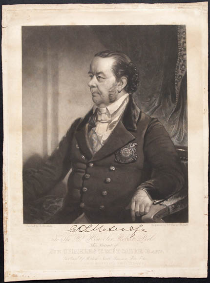 Sir Charles T. Metcalfe, Governor General of British North America Date(s): 1844 , Place of publication: Montreal , Publisher: RWS Mackay Terms of use Credit: Library and Archives Canada, Acc. No. R9266-3272 Peter Winkworth Collection of Canadiana Copyright: expired Source: Library and Archives Canada